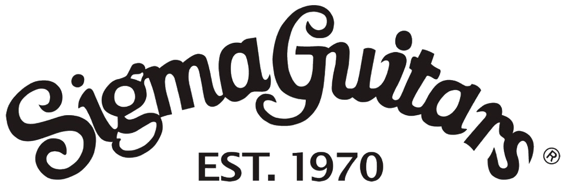 Original logo of the brand owned by C.F. Martin & Co.